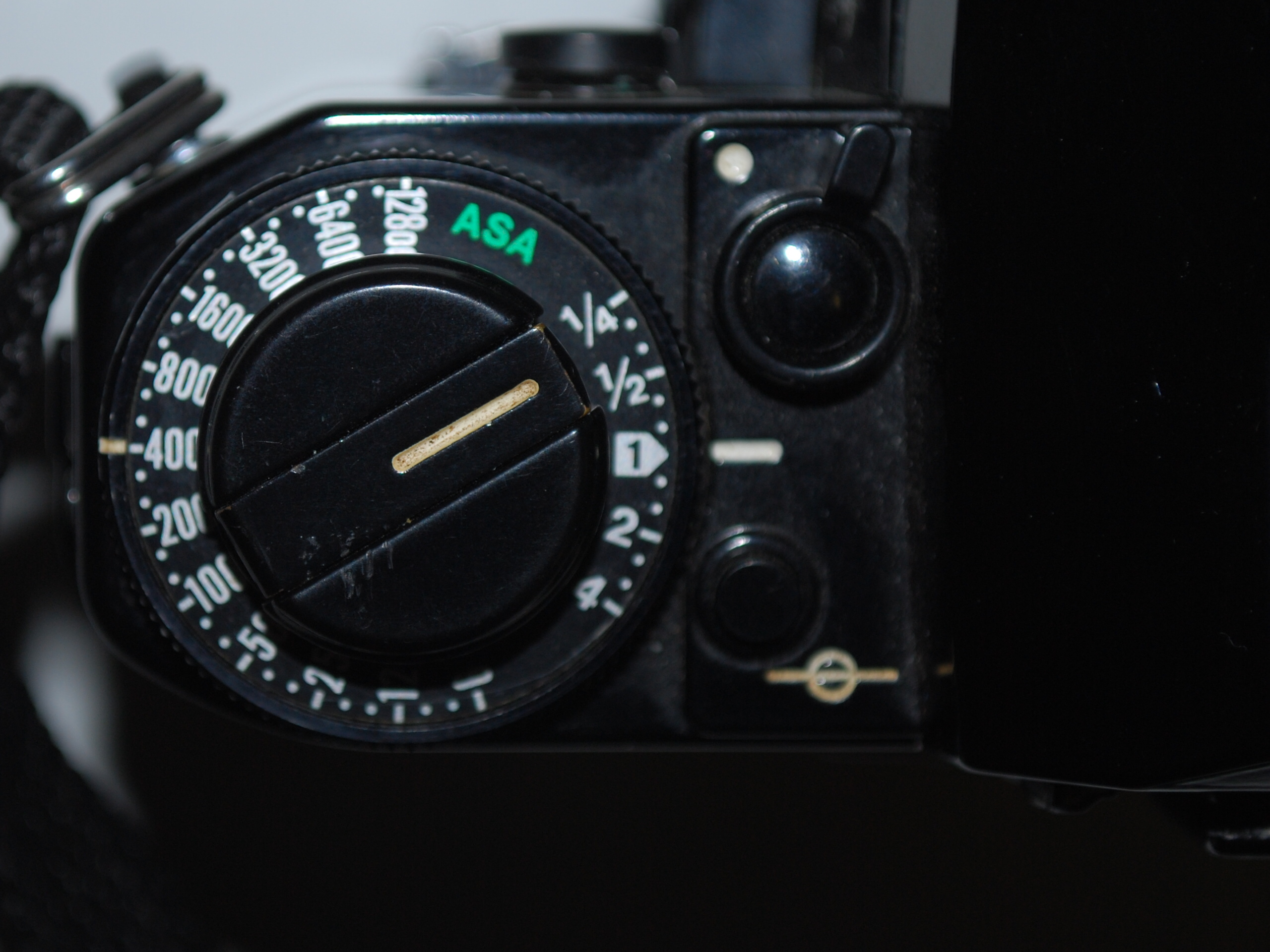 Left side of the Canon A-1